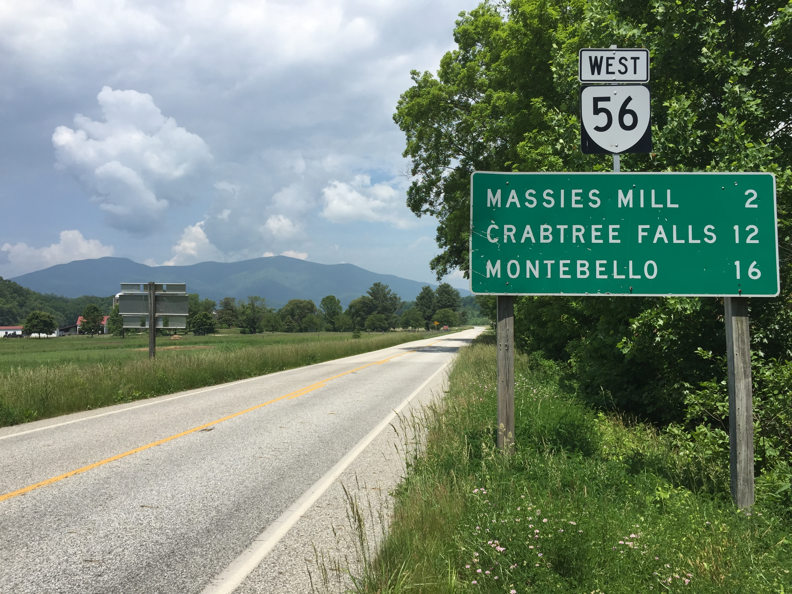 View west along Virginia State Route 56 (Crabtree Falls Highway) just west of the junction with Virginia State Route 151 (Patrick Henry Highway) in Roseland, Nelson County, Virginia